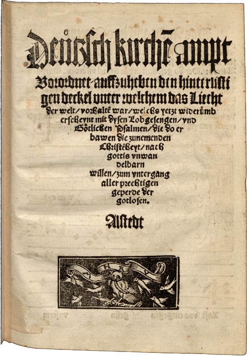 Scanned cover of 1523 work Deutzsch Kirchen Ampt by Thomas Muentzer